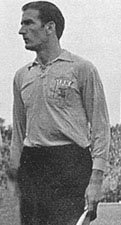 José Varacka lining up for Argentina in 1958